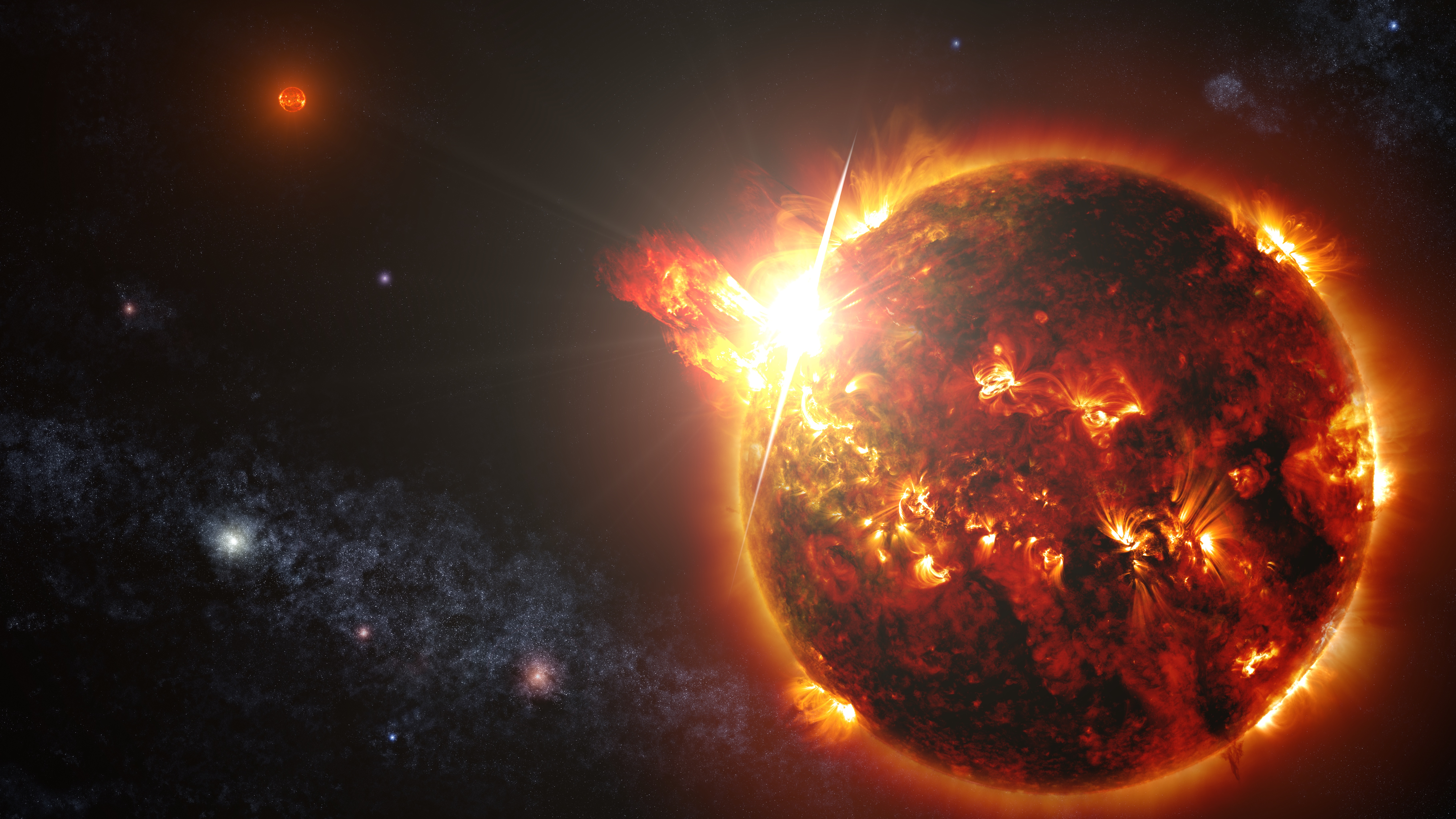 DG Canum Venaticorum (DG CVn), a binary consisting of two red dwarf stars shown here in an artist's rendering, unleashed a series of powerful flares seen by NASA's Swift. At its peak, the initial flare was brighter in X-rays than the combined light from both stars at all wavelengths under typical conditions.